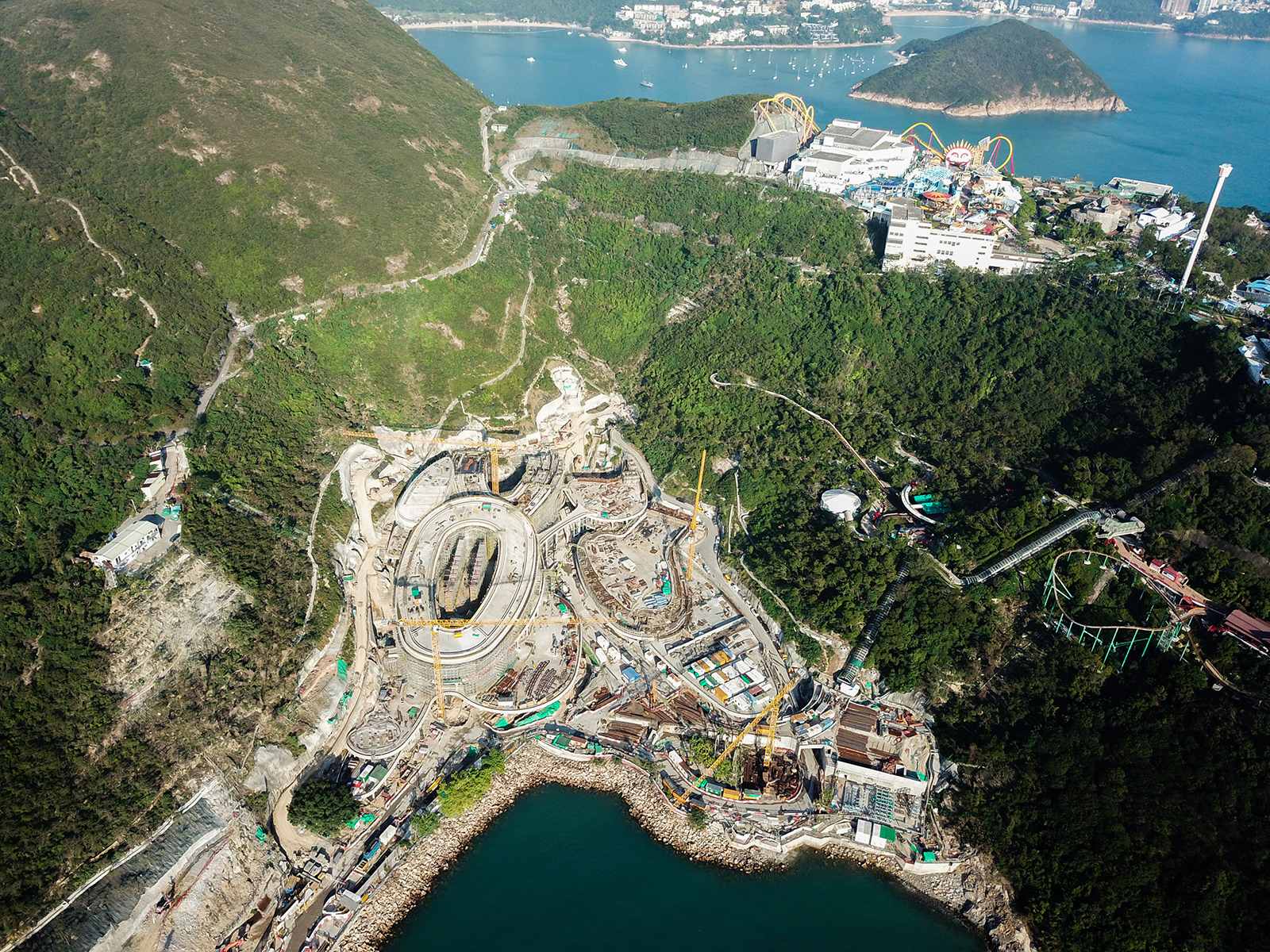 Ocean Park Tai Shue Wan Water World site